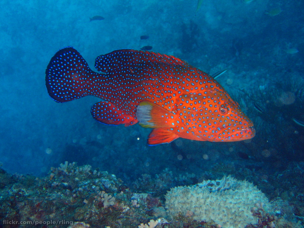 A Coral Cod (Cephalopholis miniata). Lighthouse, Ribbon Reefs, Great Barrier Reef